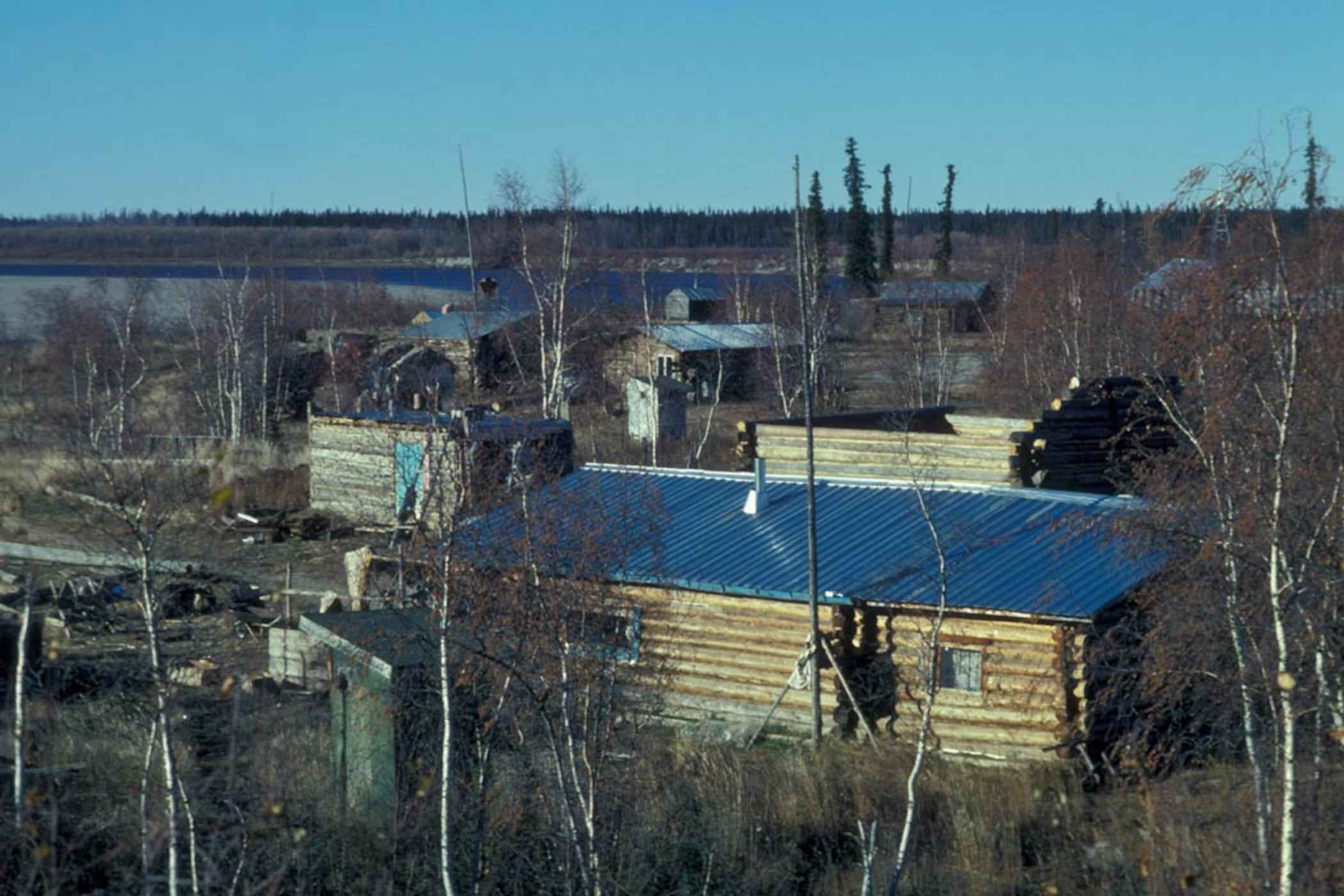 Huslia village log buildings